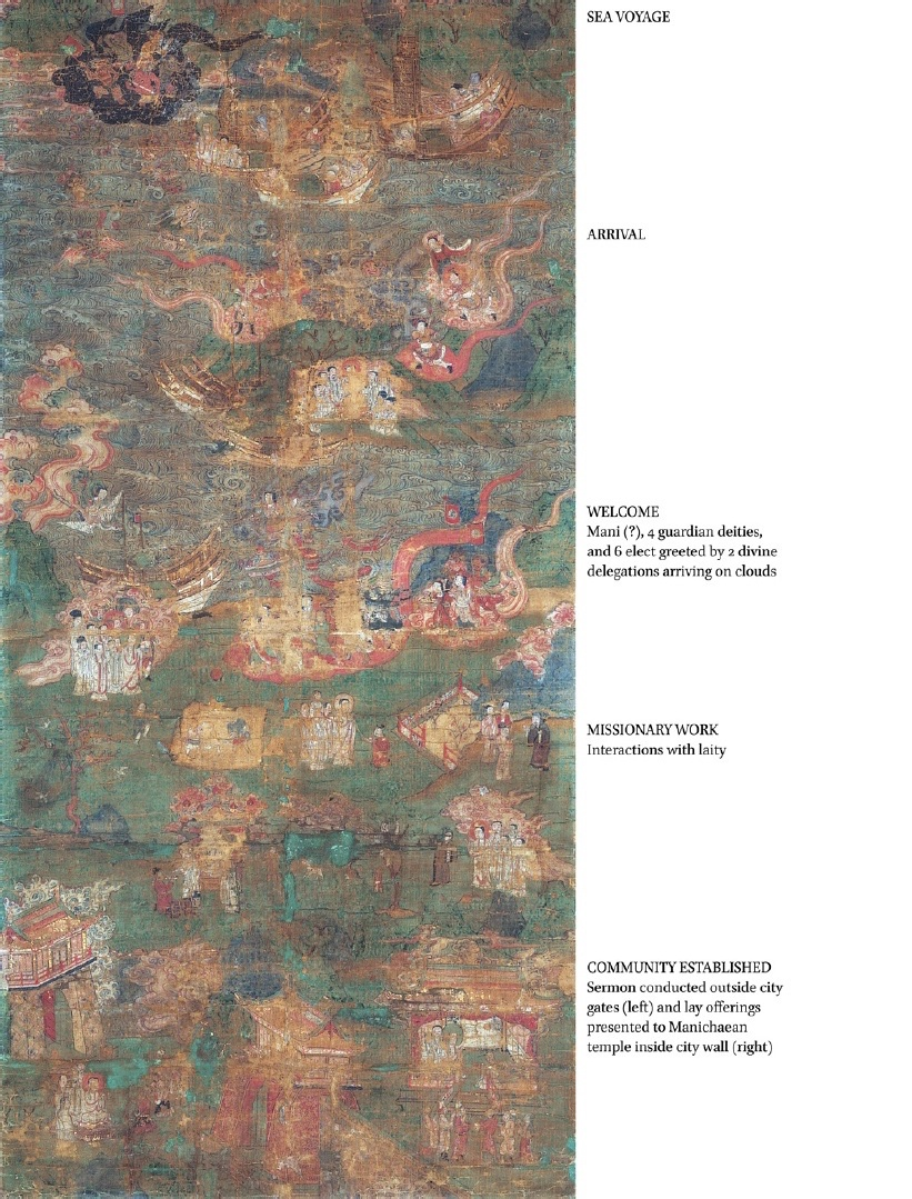 Visual syntax of Episodes from Mani’s Missionary Work.